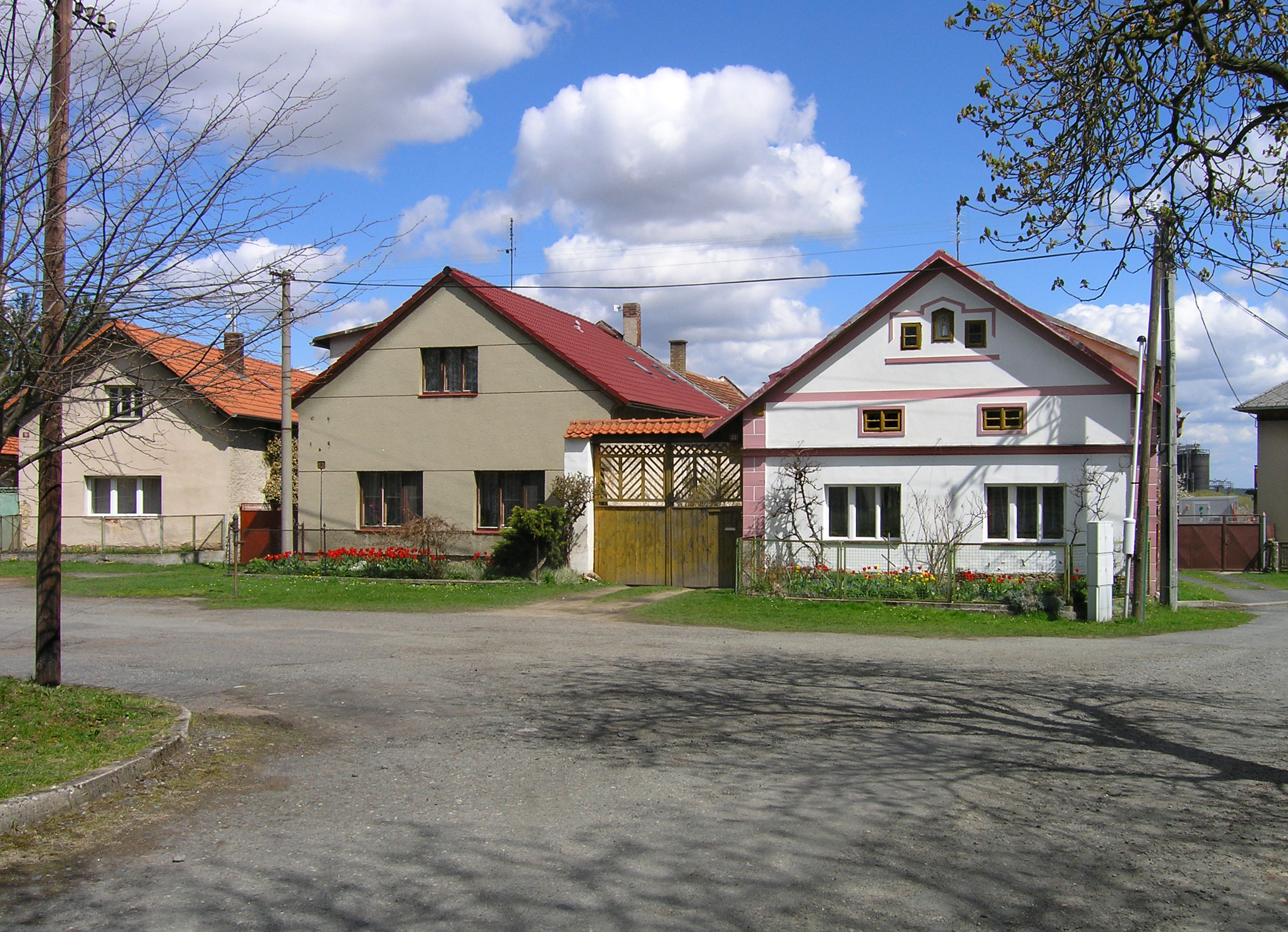 Common in Horní Kruty village, Czech Republic